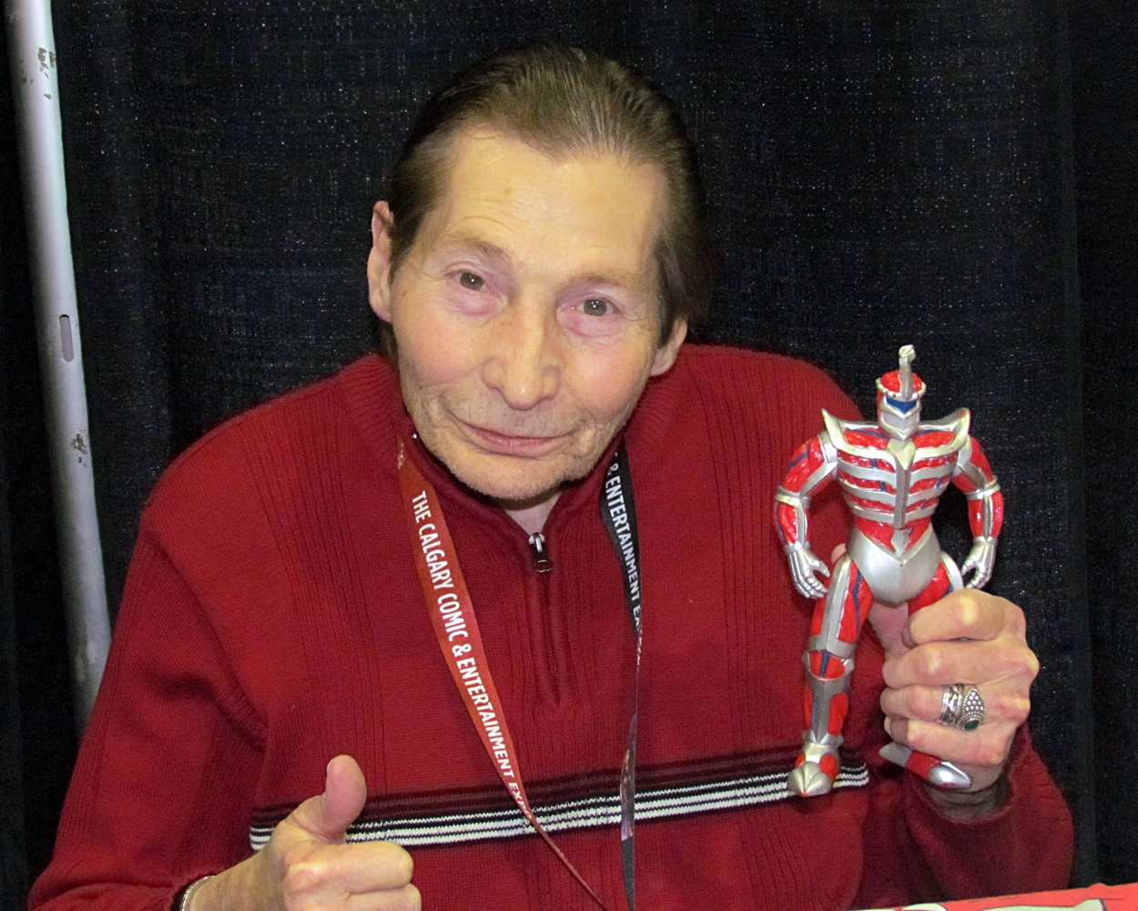 Robert Axelrod, born May 29, 1949, is an American voice actor. Two of his best known roles are Lord Zedd, the main antagonist of the Mighty Morphin Power Rangers, and Finster, the original Mighty Morphin Power Rangers monster maker. Photo taken at the Calgary Comic and Entertainment Expo, BMO Centre, Calgary, Alberta, Canada.